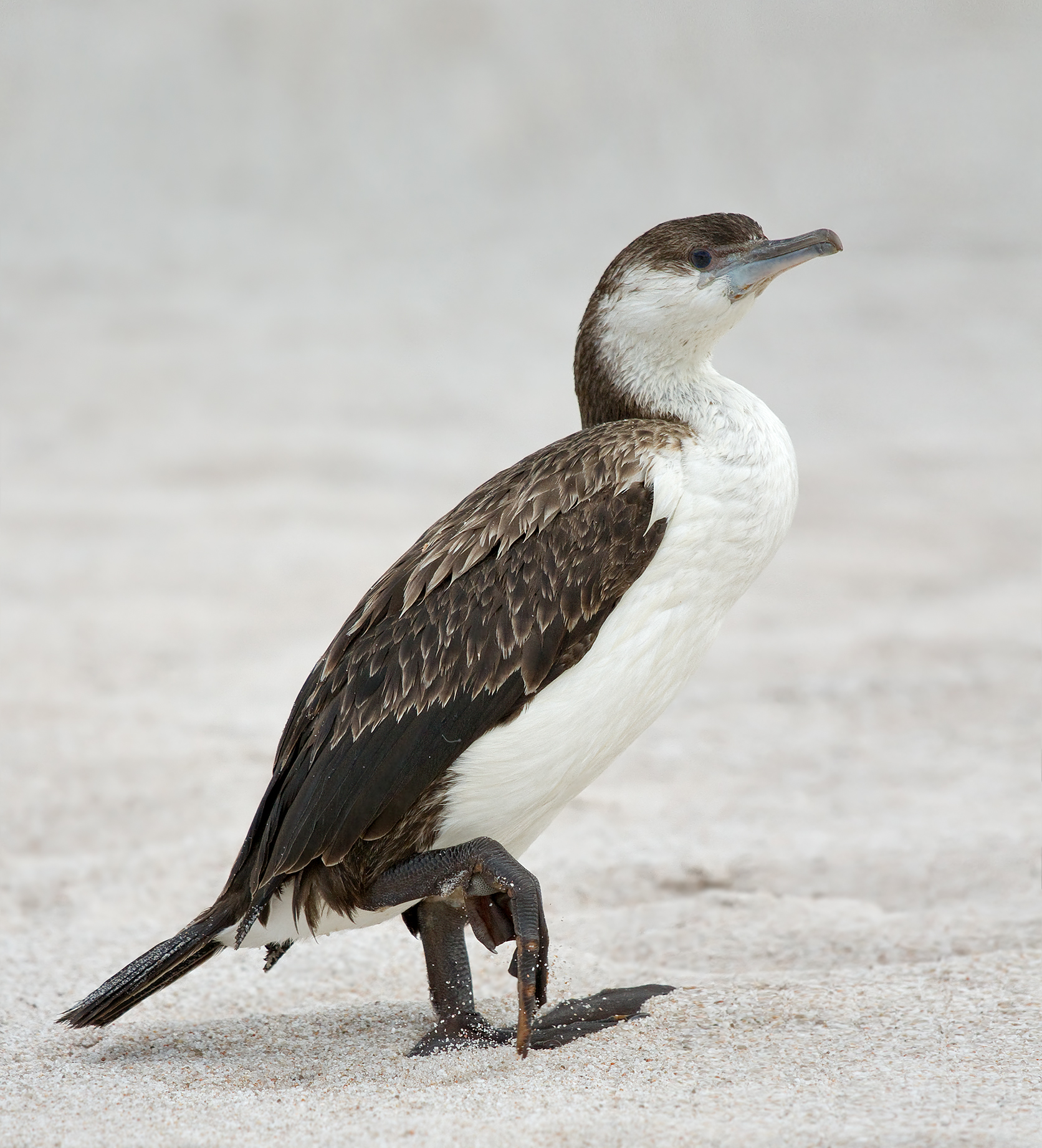 Black-faced Cormorant (Phalacrocorax fuscescens), Wineglass Bay, Freycinet, Tasmania, Australia